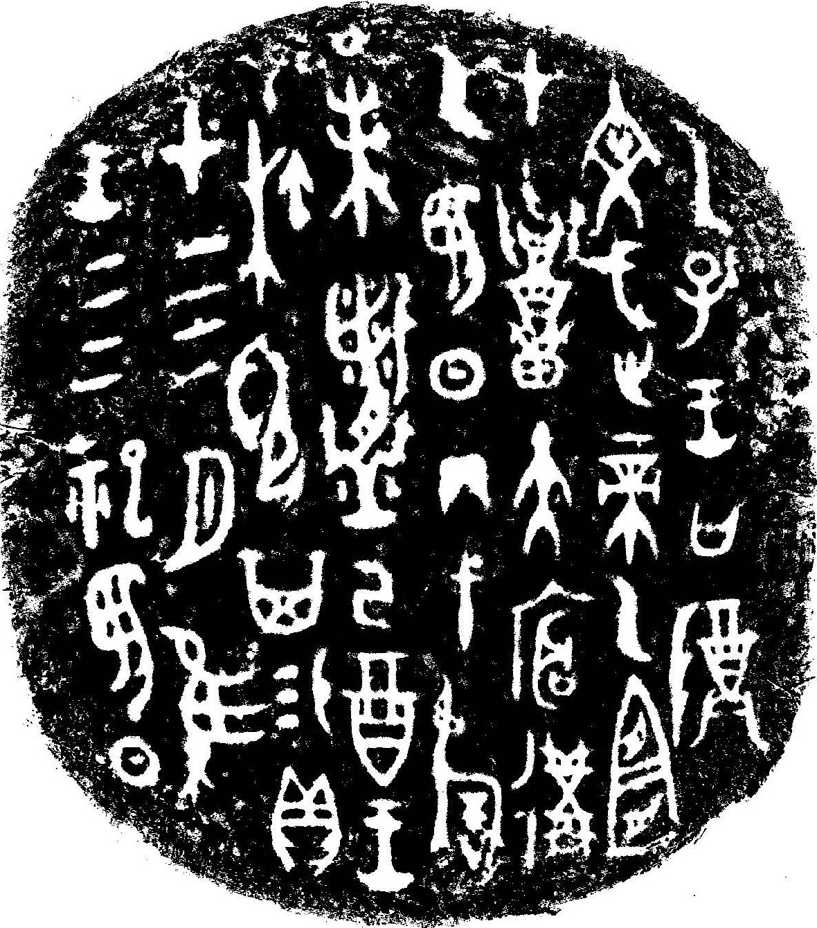 Bronzeware script is a style which engraved on the bronzeware. It is popular during 1100 BC. to 500 BC. in China. It is engraved on "Si Si Bi Qi You"(四祀邲其卣) a kind bronzen pot c. 1000 BC.